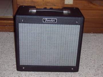 A Fender Pro Junior v.II all-tube amplifier.